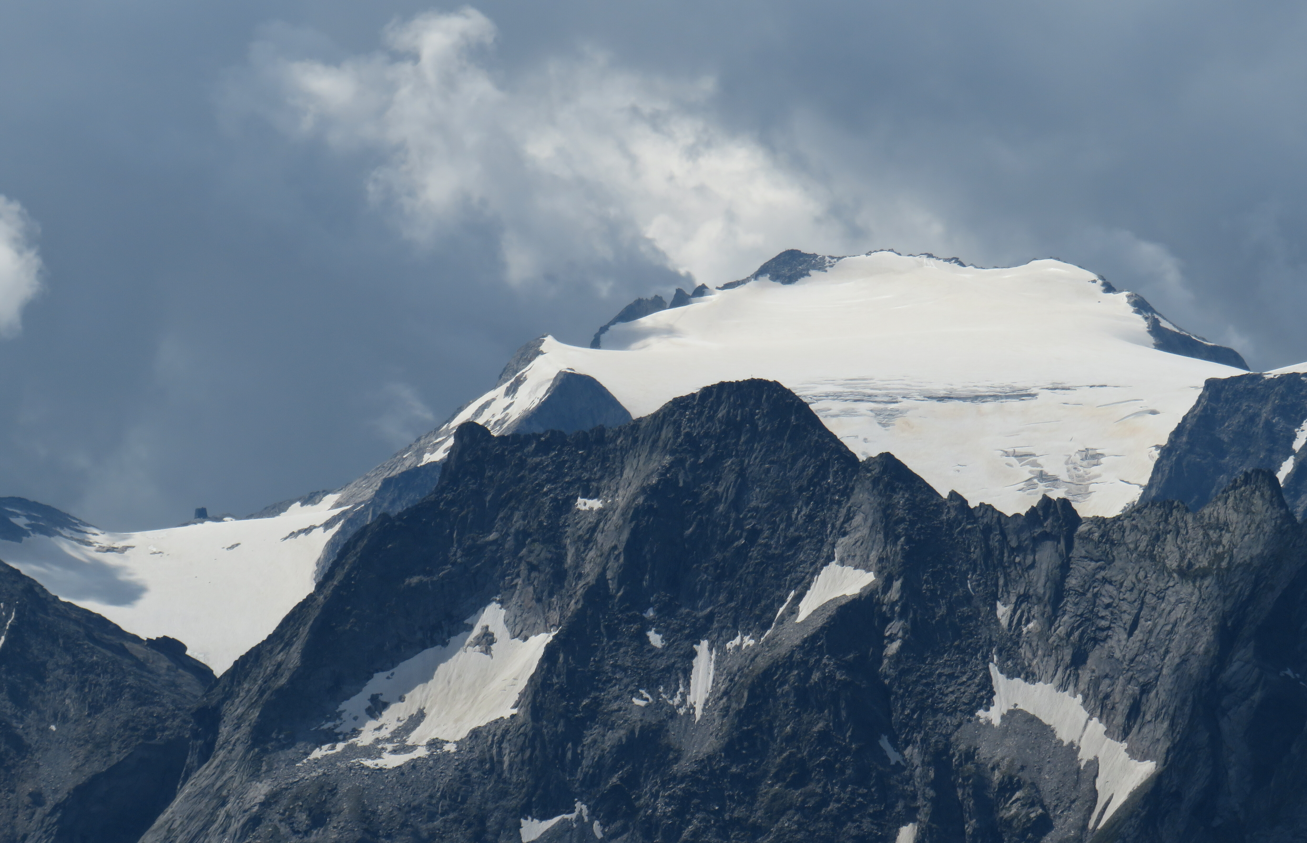 Schwarzenstein und Schwarzensteinhütte